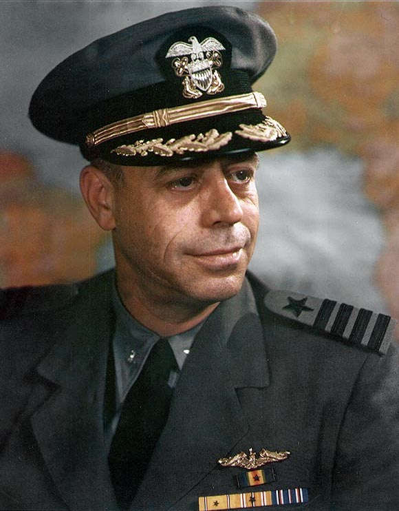 Photo #: 80-G-K-14128 (Color) Captain Allan R. McCann, USN Photographed in Service Dress Grey Uniform, circa 1943-44, while he was serving with the Office of the Chief of Naval Operations, in Washington, D.C. A submariner, he was responsible for the final development of the McCann Rescue Chamber for saving crews of sunken submarines. Official U.S. Navy Photograph, now in the collections of the National Archives.